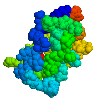 Structural formula of Aprotinin, an antifibrinolytic pharmaceutical.